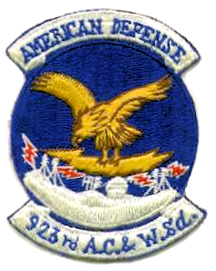 Emblem of the 923d Aircraft Control and Warning Squadron